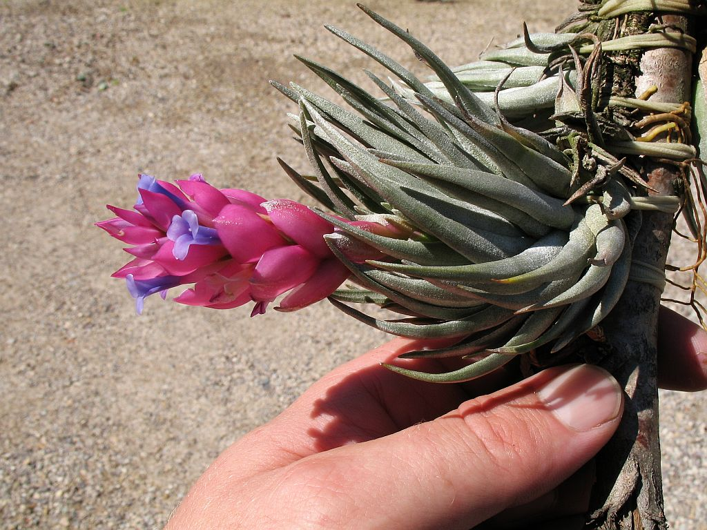 Tillandsia carminea in cultivation at the Botanical Garden of Heidelberg, Germany.